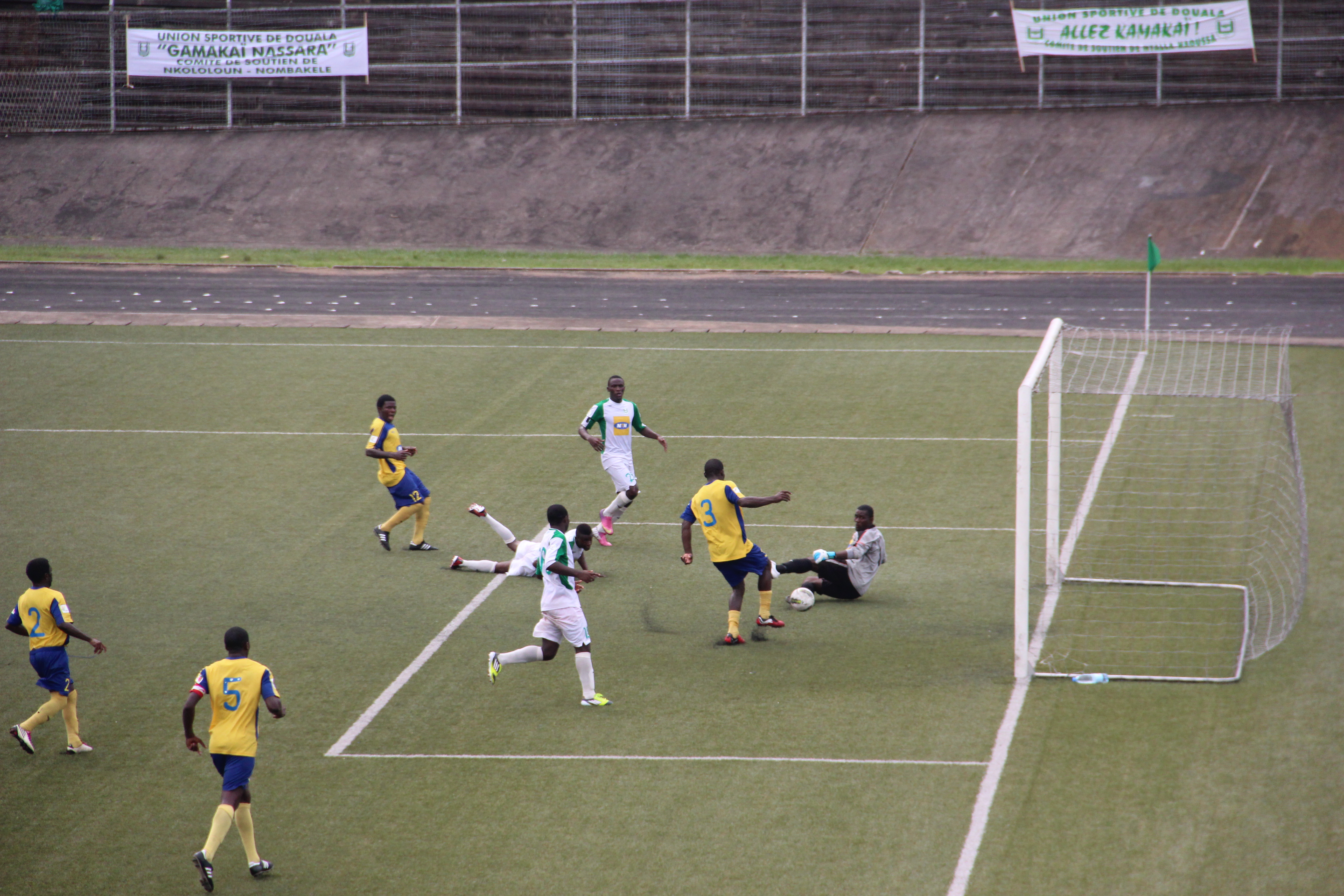 Elite One — 24 February 2013, Stade de la Réunification, Douala. Match between: Union Douala — Sable FC But de Douala.